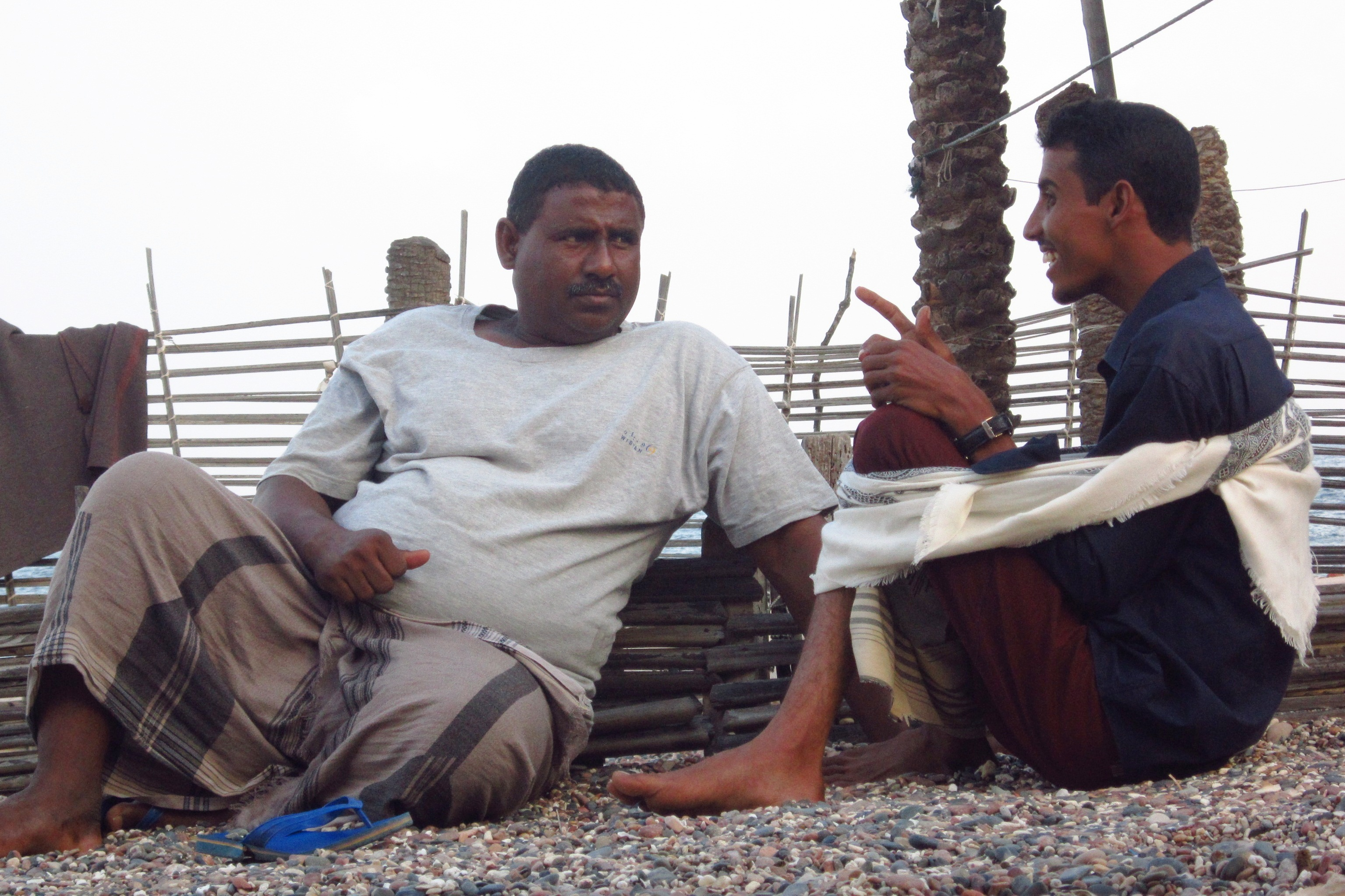 people man island yemen socotra soqotra